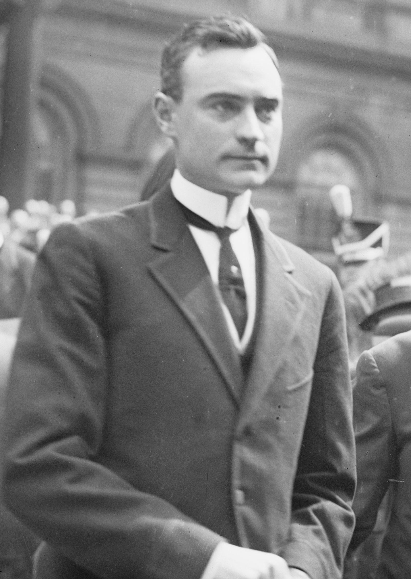 John Purroy Mitchel at City Hall on May 11, 1914 at the memorial service for the 17 U. S. sailors who died at Veracruz. This is a crop from a larger image.